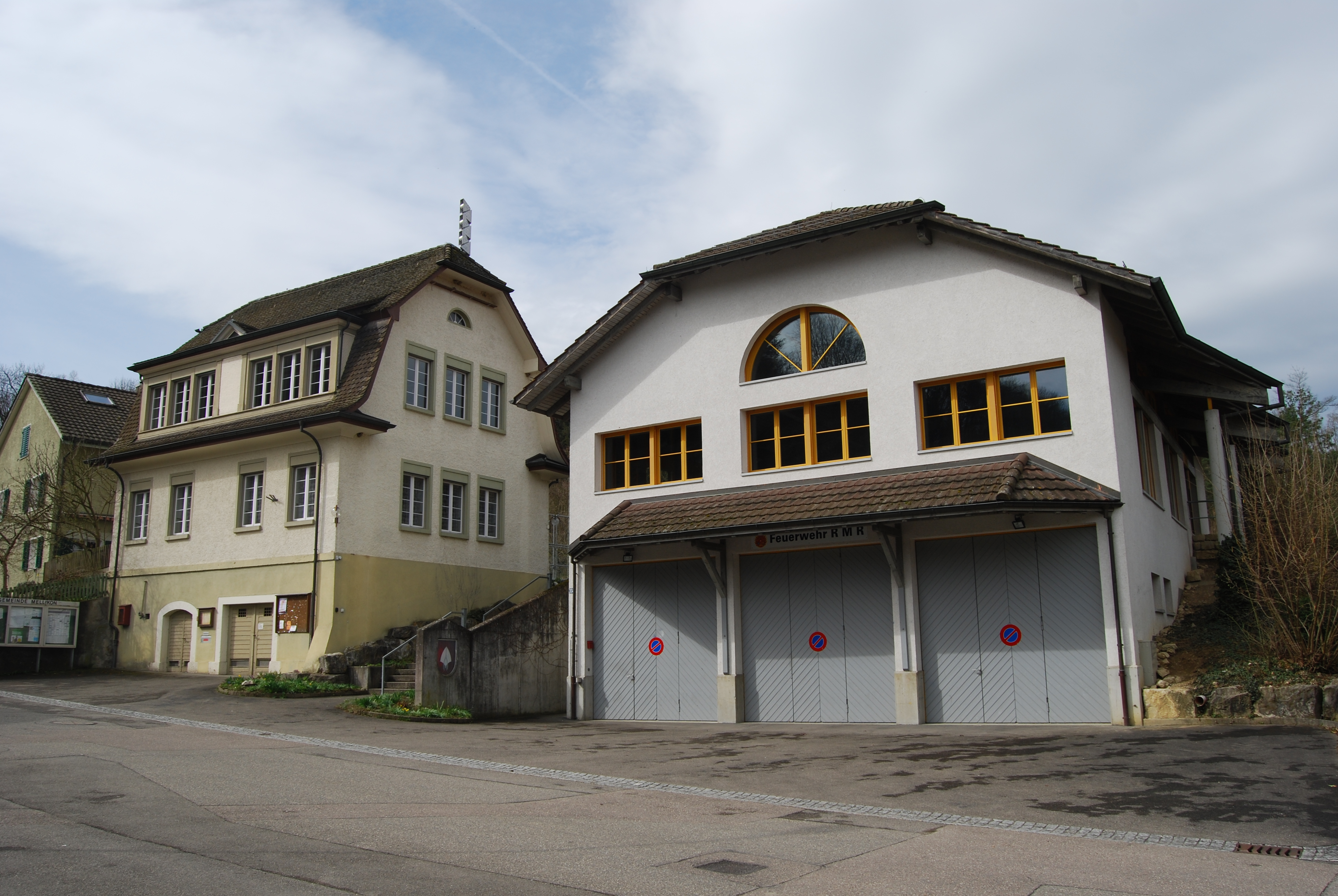 Municipal administration and fire fighters station Mellikon, canton of Aargau, SwitzerlandEsperanto: Komunuma domo kaj fajrobrigadejo de Mellikon, Kantono Argovio, Svislando